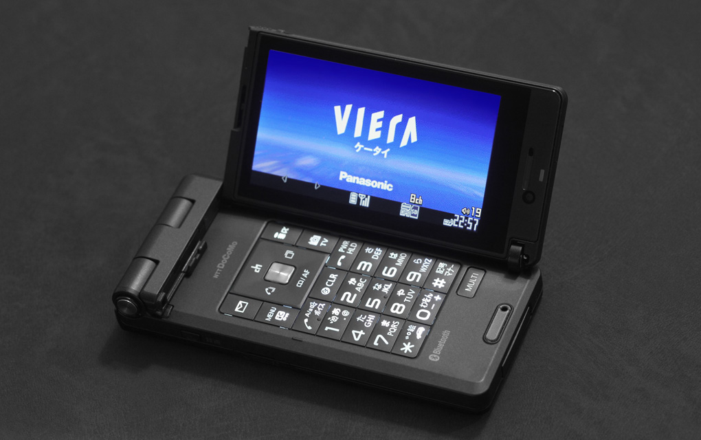 NTT Docomo FOMA P906i